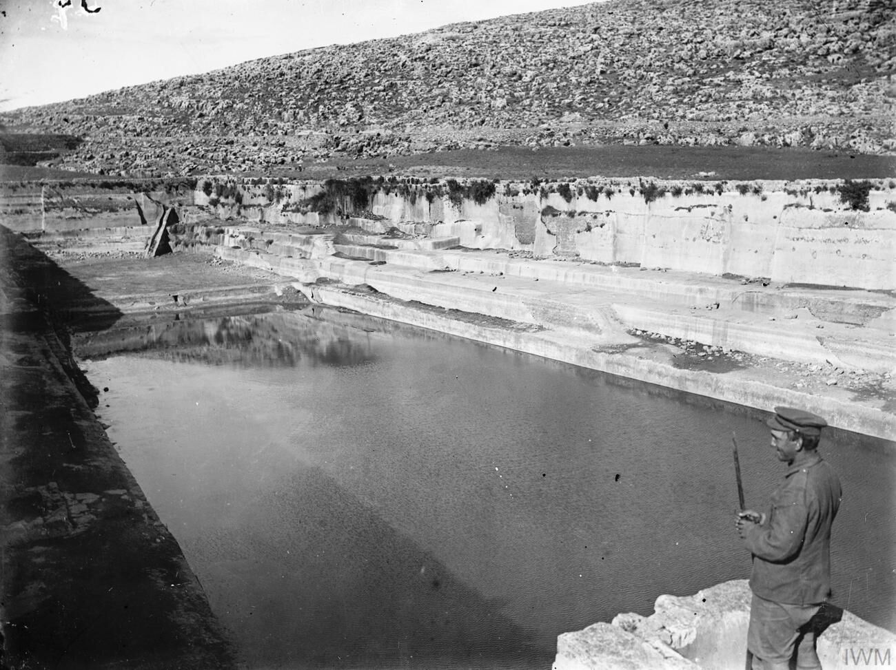 Copyright: Crown copyright Access: Unrestricted